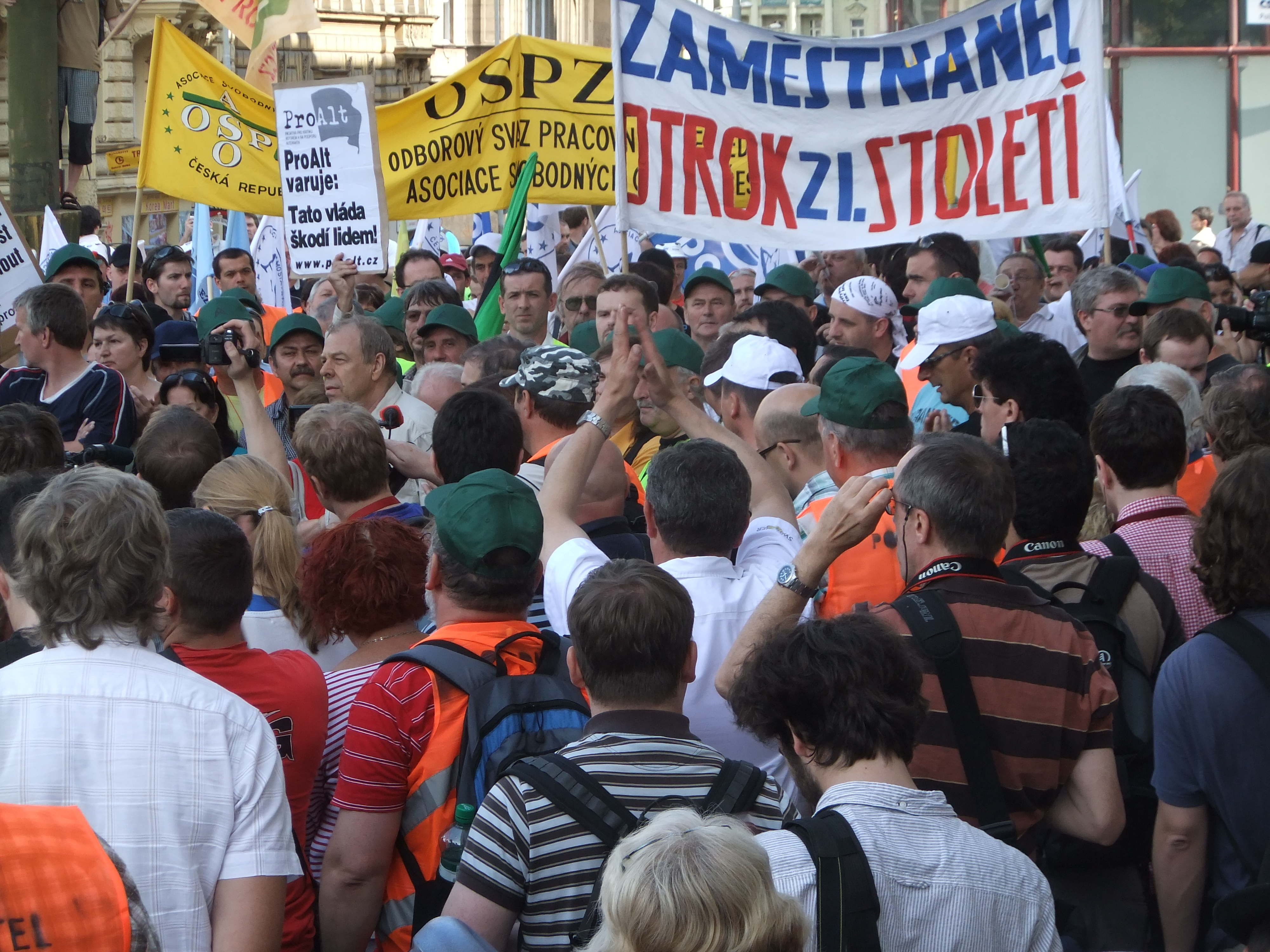 The nation-wide union-organised transport strike June 16, 2011 in the Czech Republic. This photo is taken in Praha on Palacky Square before the ministry of medical care. Transport-union leaders make speeches criticising the government.